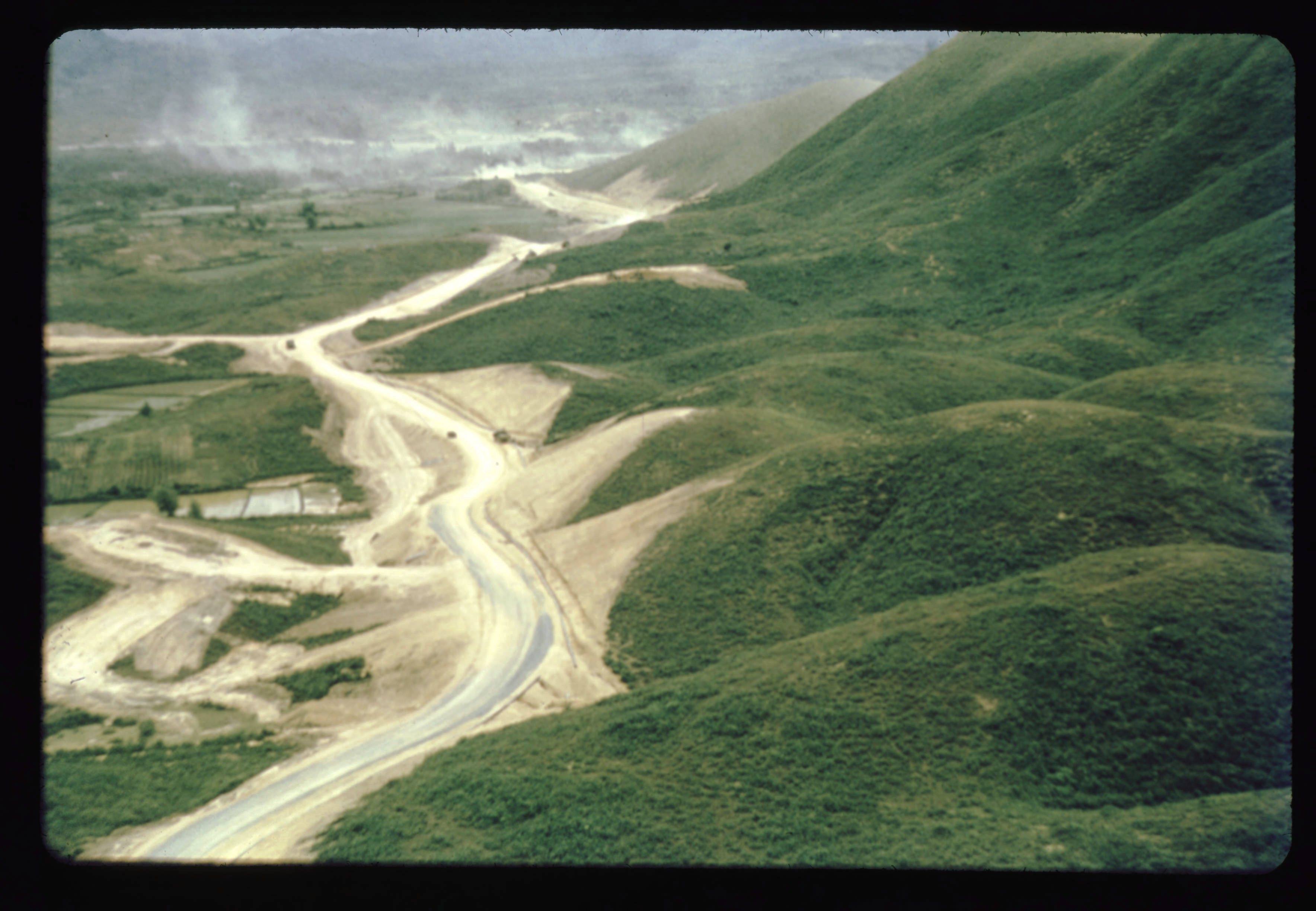 The 27th Engineer Battalion has completed the upgrading of Highway 547, a 17.5 kilometer road connecting Highway 1 and fire base Bastogne